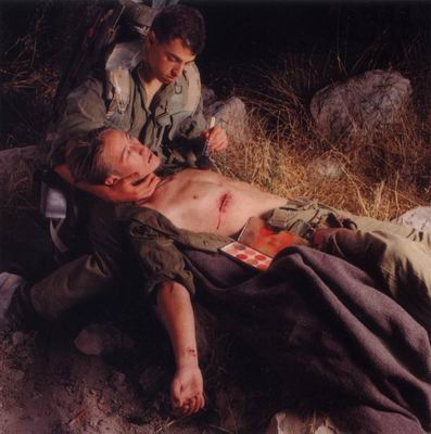 Photograph